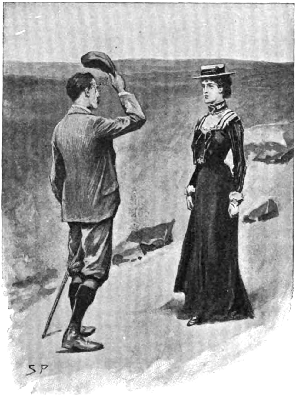 Illustration of the Sherlock Holmes adventure The Hound of the Baskervilles. Illustration appeared in The Strand Magazine in November, 1901. Original caption was "'GO BACK!' SHE SAID."